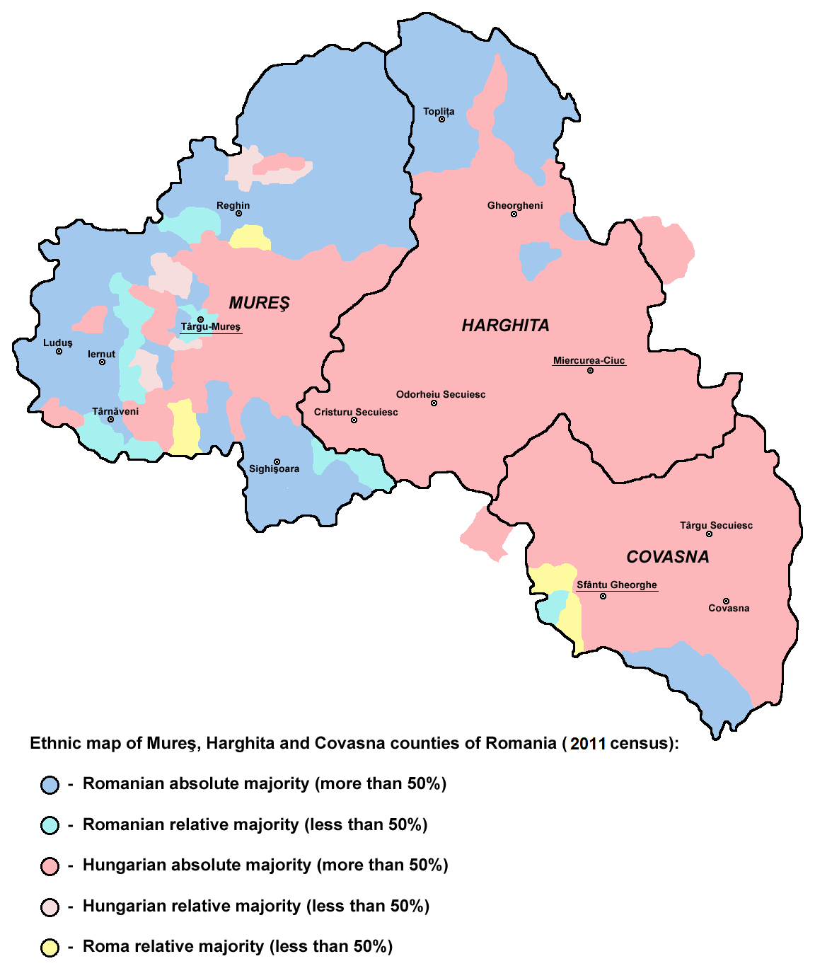 Ethnic map of Mureş, Harghita and Covasna counties in Romania (2011 census data by municipalities).